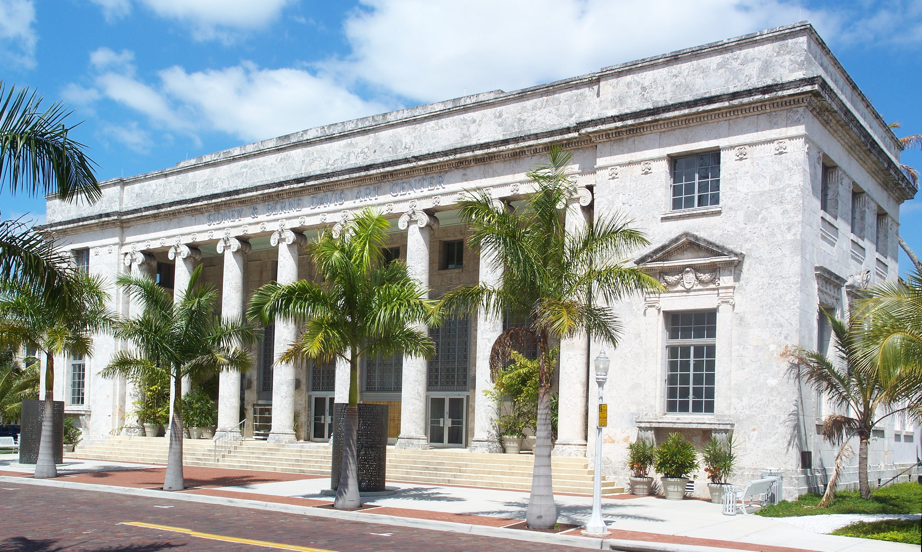 Fort Myers, Florida: Fort Myers Downtown Commercial District: Old 1933 courthouse, now an arts center.